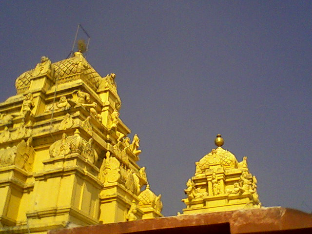 A view of Saumyagiri (Bheemunipatnam) Narasimha Swamy Temple in Visakhapatnam District